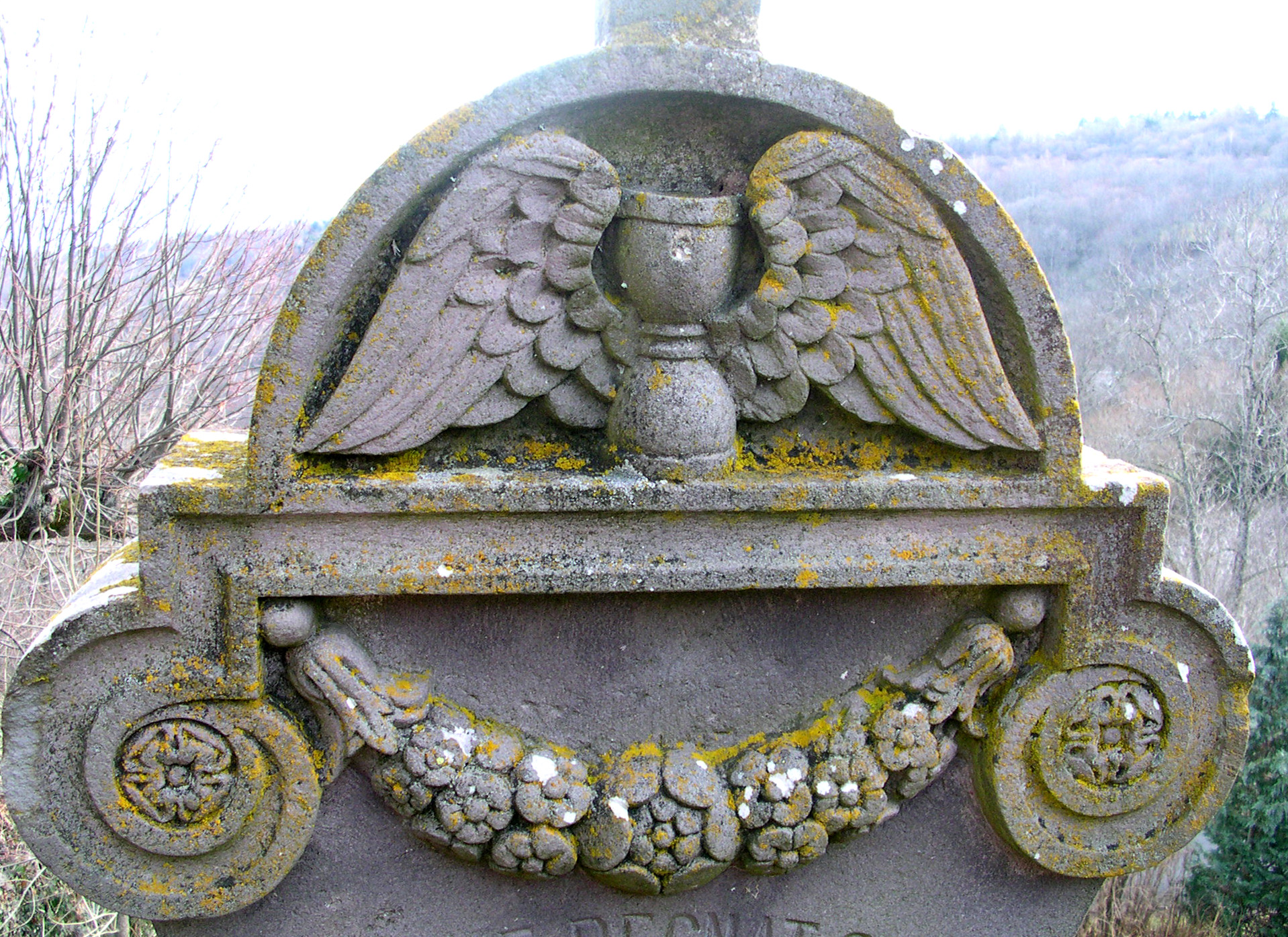 Hourglass with wings in the Nadaillat (commune of Saint-Genès-Champanelle, Puy-de-Dôme, France) cemetery.